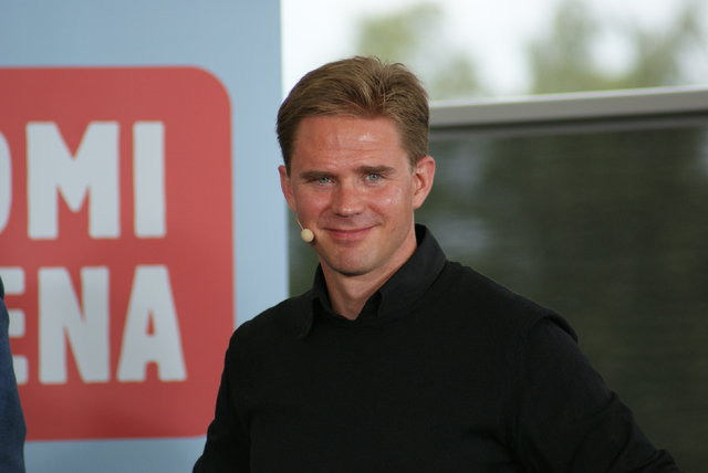 Politician Jyrki Katainen in Suomi Areena at panel discussion during municipal elections in 2008.